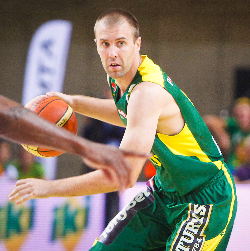 Lithuanian basketball player Tomas Delininkaitis